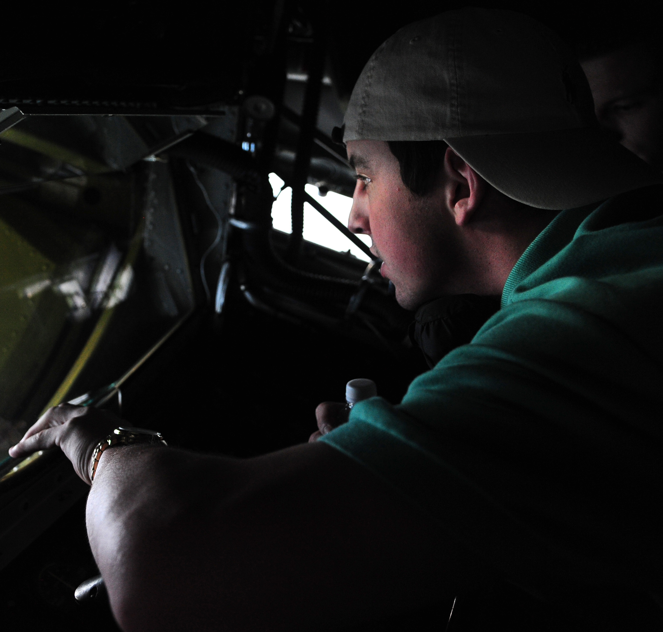 Taylor Guerrieri, Tampa Bay Rays minor league pitcher, looks through the boom window of a KC-135 Stratotanker, Jan. 10, 2012 at MacDill Air Force Base, Fla. The players had an opportunity to see a static display of the KC-135 Stratotanker, try a MRE and be wingman for a day with an Airman to tour their duty section. (U.S. Air Force photo by Airman Basic David Tracy/Released)